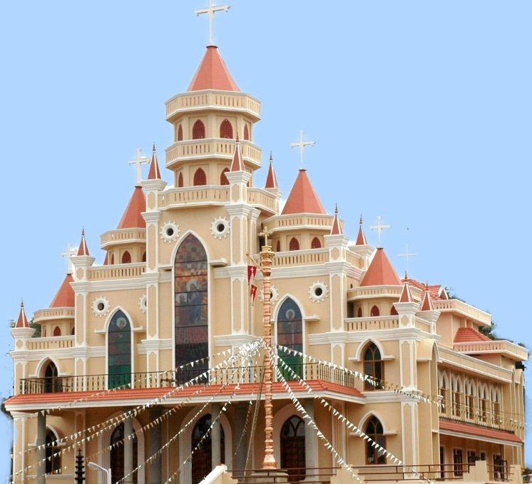 Pathicadu pally